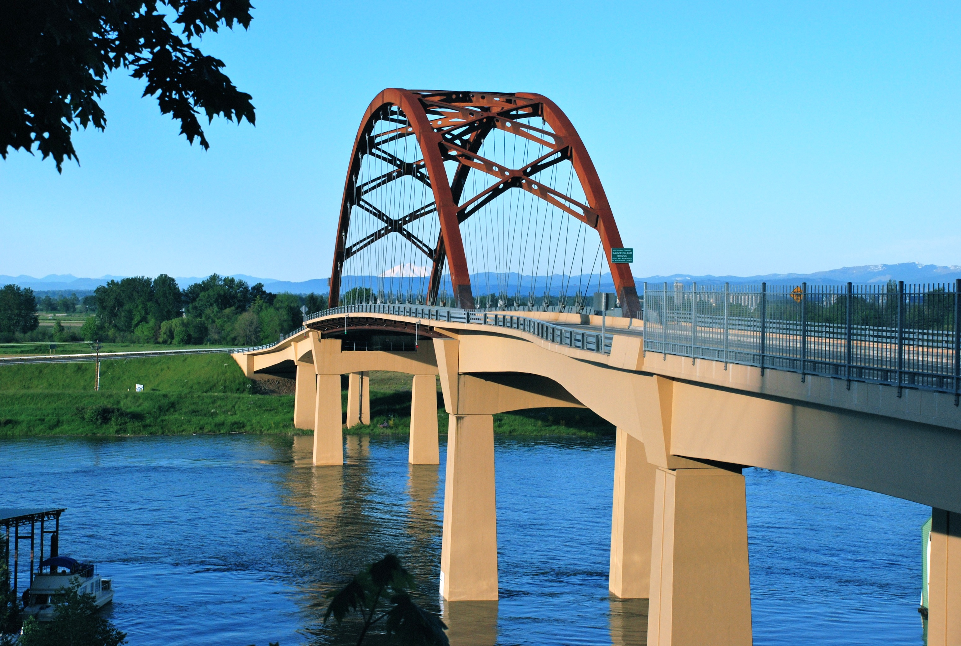 The second Sauvie Island Bridge (near Portland, Oregon), which was built in 2008 and replaced a 1950 bridge. This view is looking northeast. Mount Adams, located 75 miles (120 km) away, is visible in the background (covered in snow). The bridge spans the Multnomah Channel, a distributary of the Willamette River.